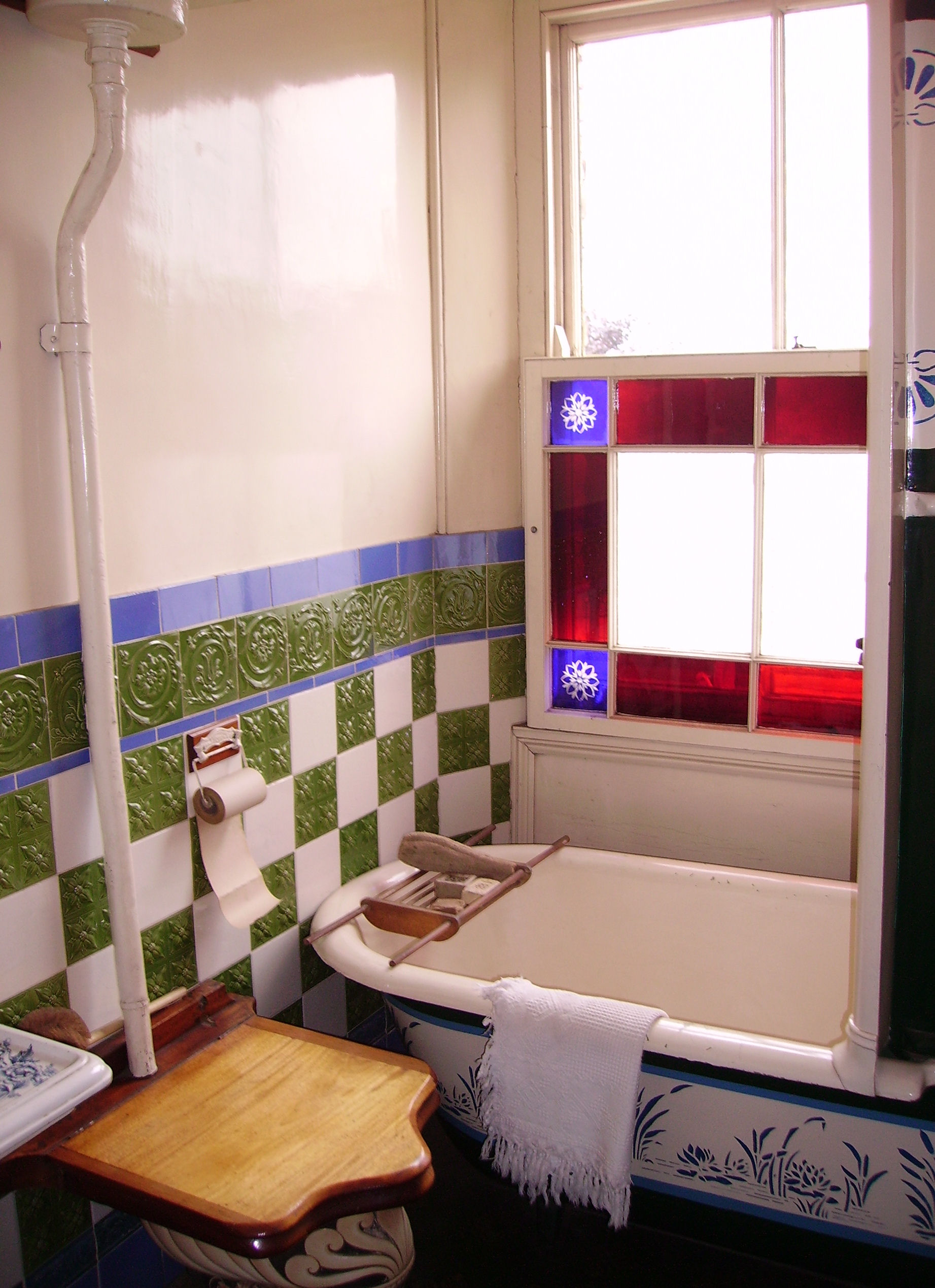 Beamish Museum, County Durham, England. This is the bathroom of No. 3 Ravensworth Terrace, on the north side of the main street in Town. It's the residence of J. Jones the dentist - his practice is next door at No.4.